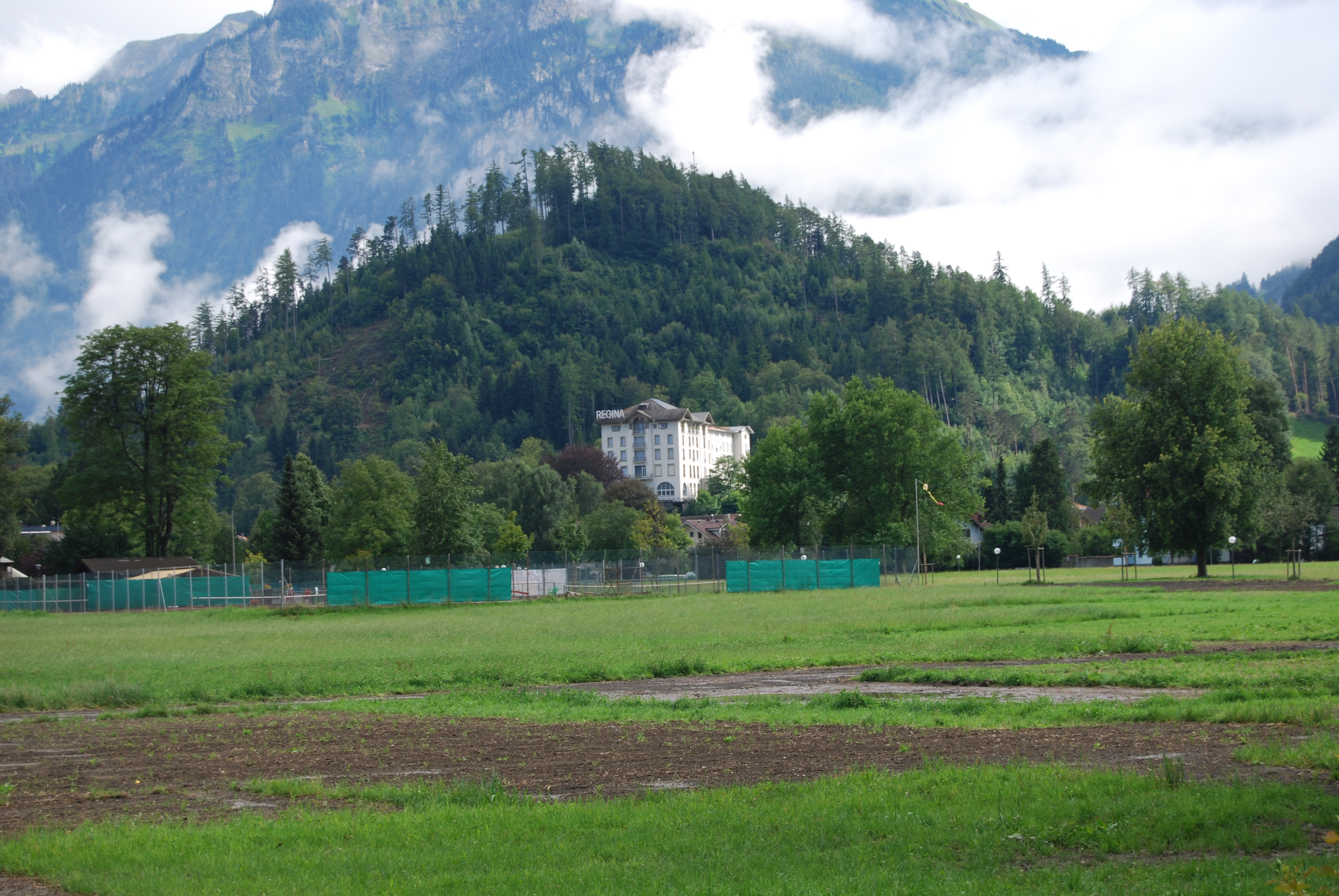 Hotel Regina, Matten bei Interlaken, canton of Bern, Switzerland